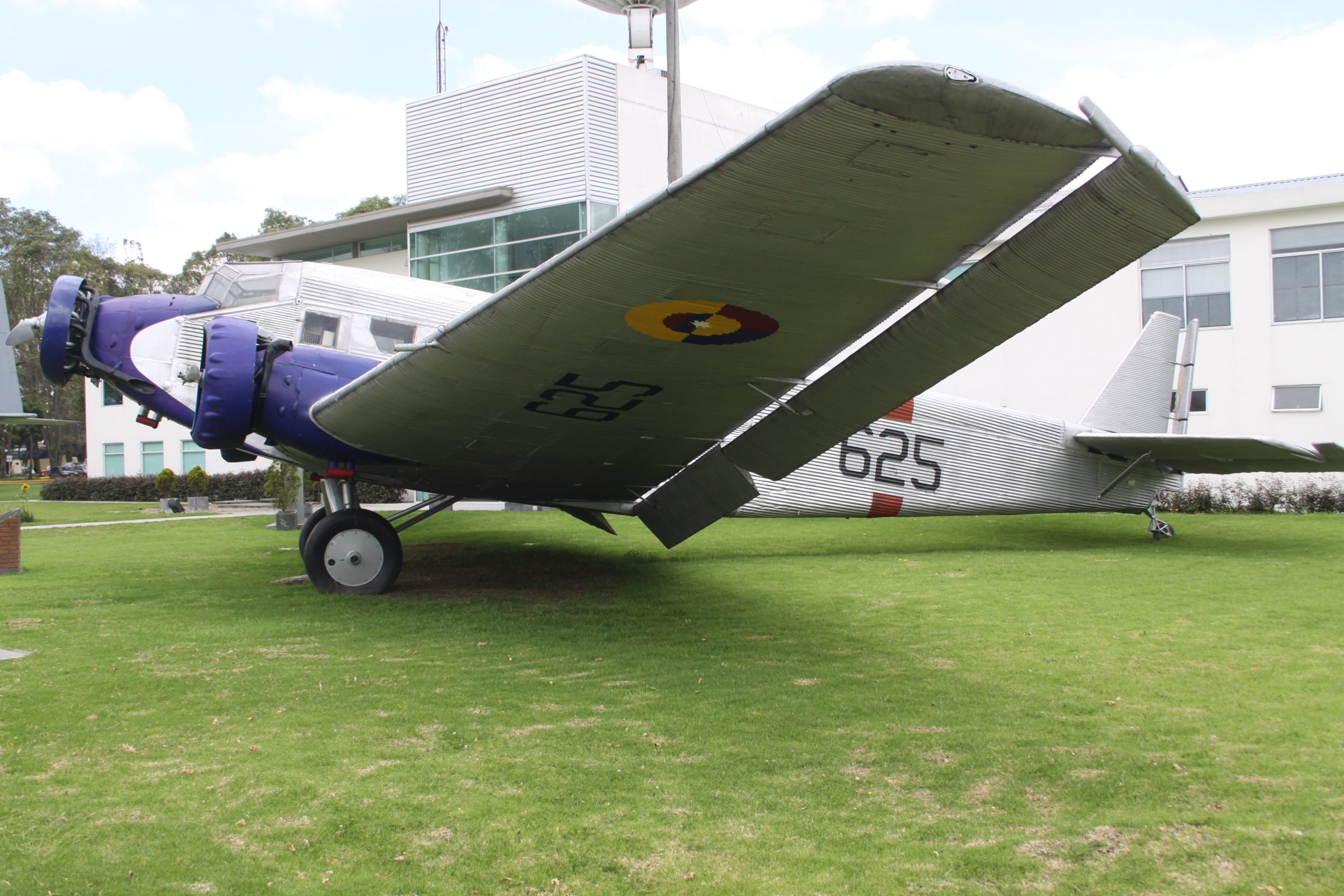 At Bogota El Dorado International